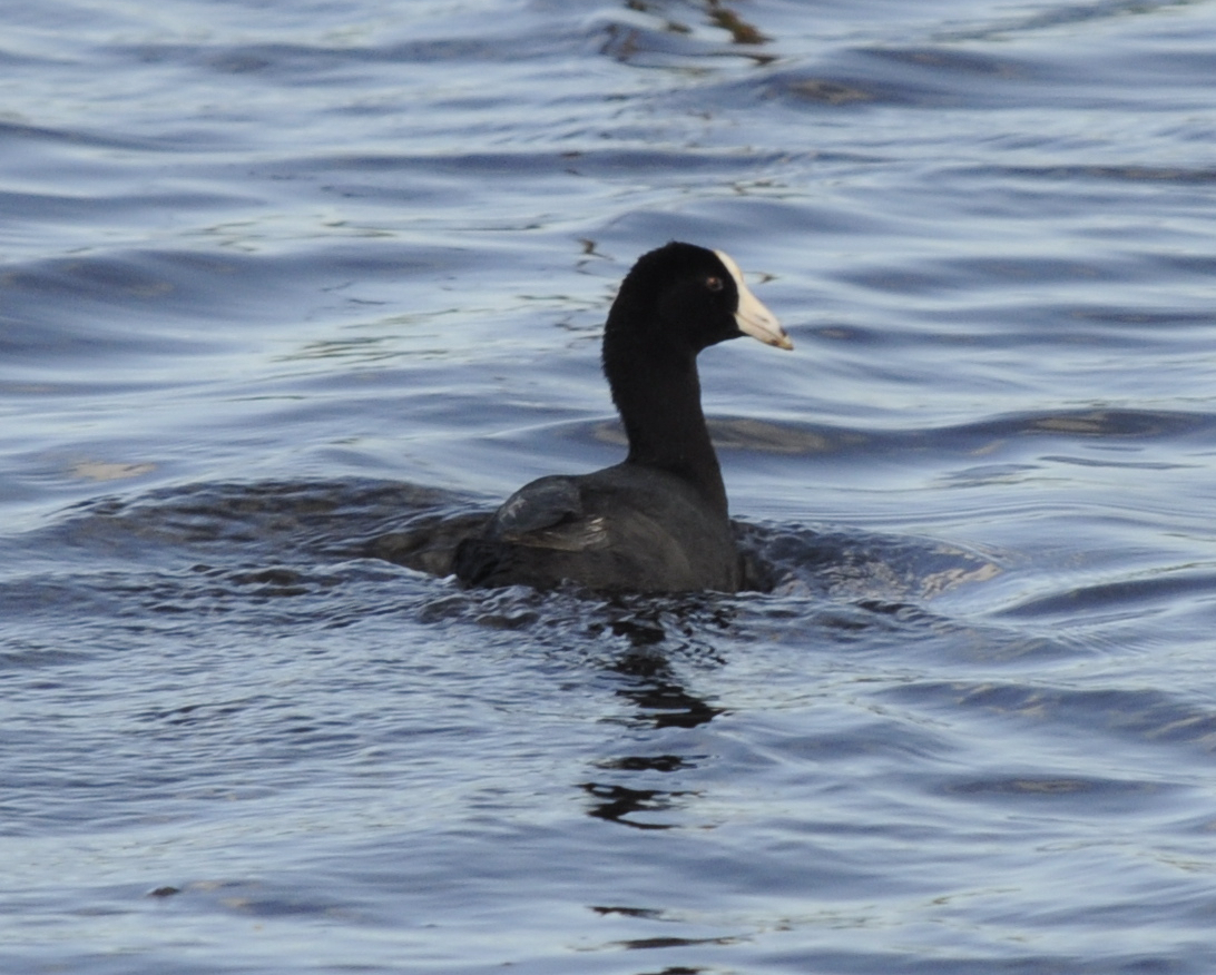 Caribbean Coot (Fulica americana, syn. "F. caribaea") at Laguna Cartagena, Lajas, Puerto Rico